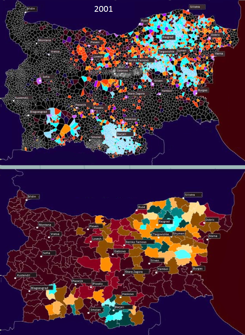 Distribution of the ethnic Turks in Bulgaria according to the 2001 census. Their frequency descends from blue color, to orange and purple and from their lighter to darker shades.